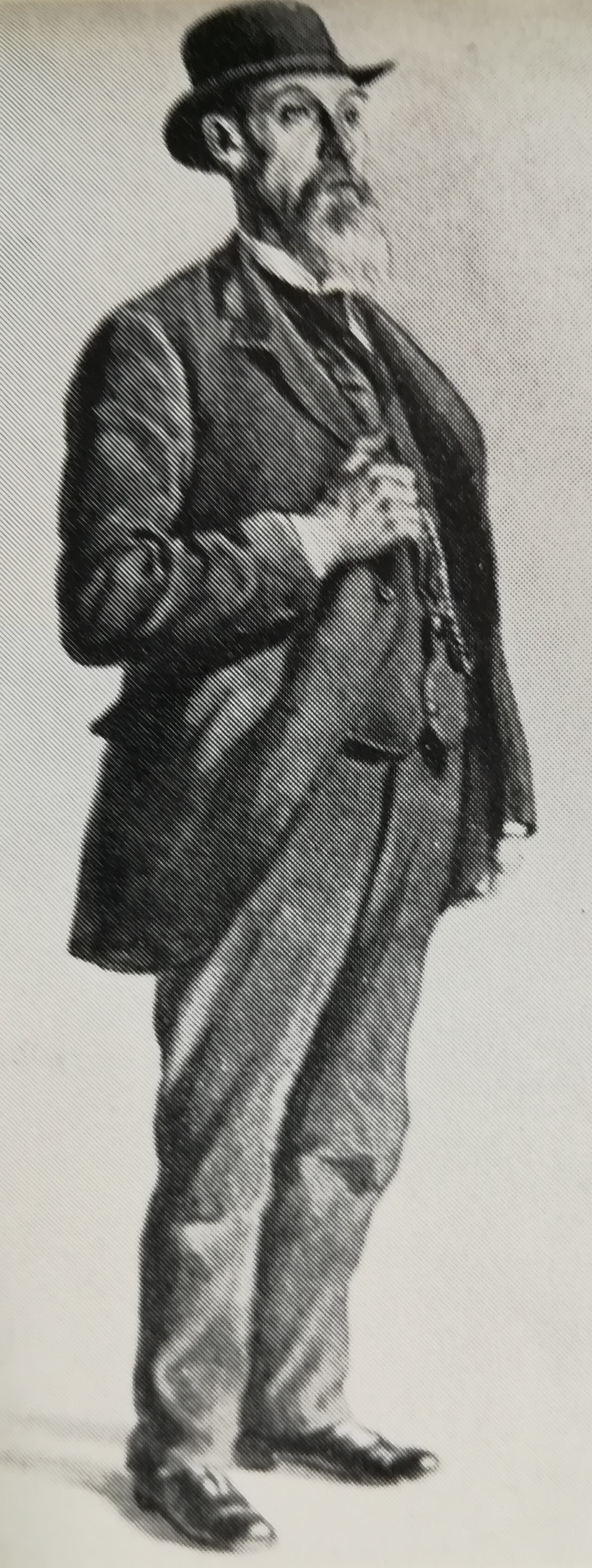 Samuel Shaftoe, councillor in Bradford and leader of the Bradford Trades Council